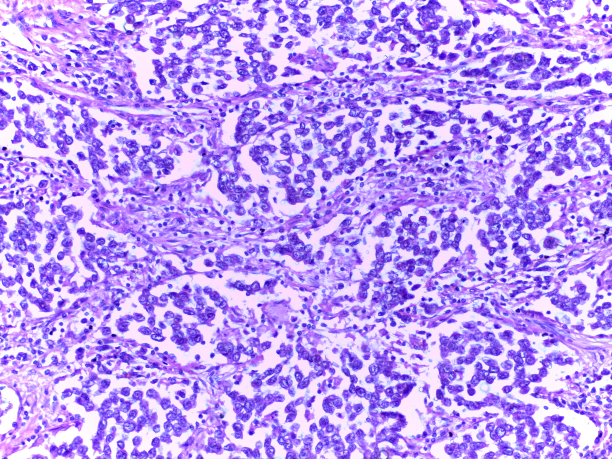 Micrograph of seminoma testes showing lobules of uniform cells separated by delicate septae of fibrous tissue. These cells can have a distinct outline with clear cytoplasm. The nuclei are large, with central prominent nucleolus.